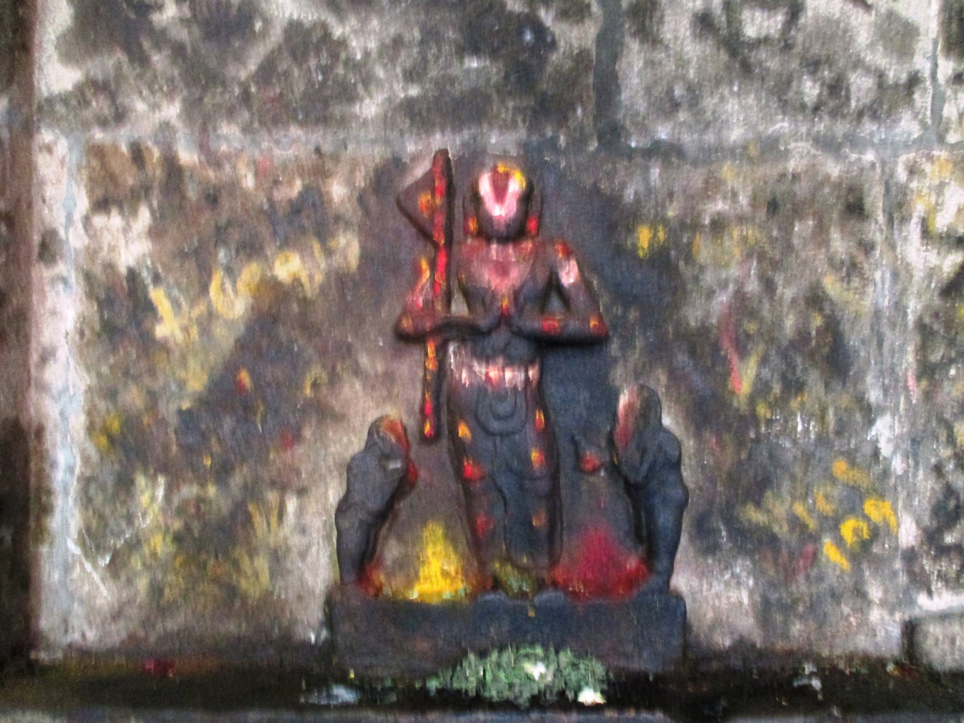 Sri Azhagiya Manavala Perumal Temple